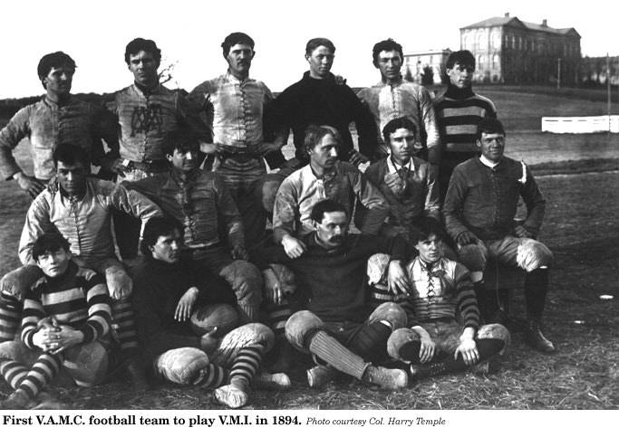 V.A.M.C. Football Team, 1894, coached by Joseph Massie (Virginia Tech was known as "Virginia Agricultural and Mechanical College" at the time.) This photo was published on page 76 of the 1895 Bugle, which gives the players' names as follows: Top row (L-R}: H.A. Johnson, N.R. Patrick, Staples., P.J. Norfleet, W.L. James, J.W. Palmer Middle row (L-R): R.N. Watts, C.G. Guignard., J.W. Stull., U.Harvey., Hart. Bottom row (L-R): T.E. Dashiell., T.D. Martin., J.A. massie., S.S. Fraser